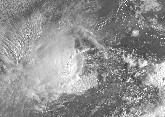 Tropical Depression Fifteen-E of 2007, seen in visible light from GOES-West satellite at 1400Z Oct 15.